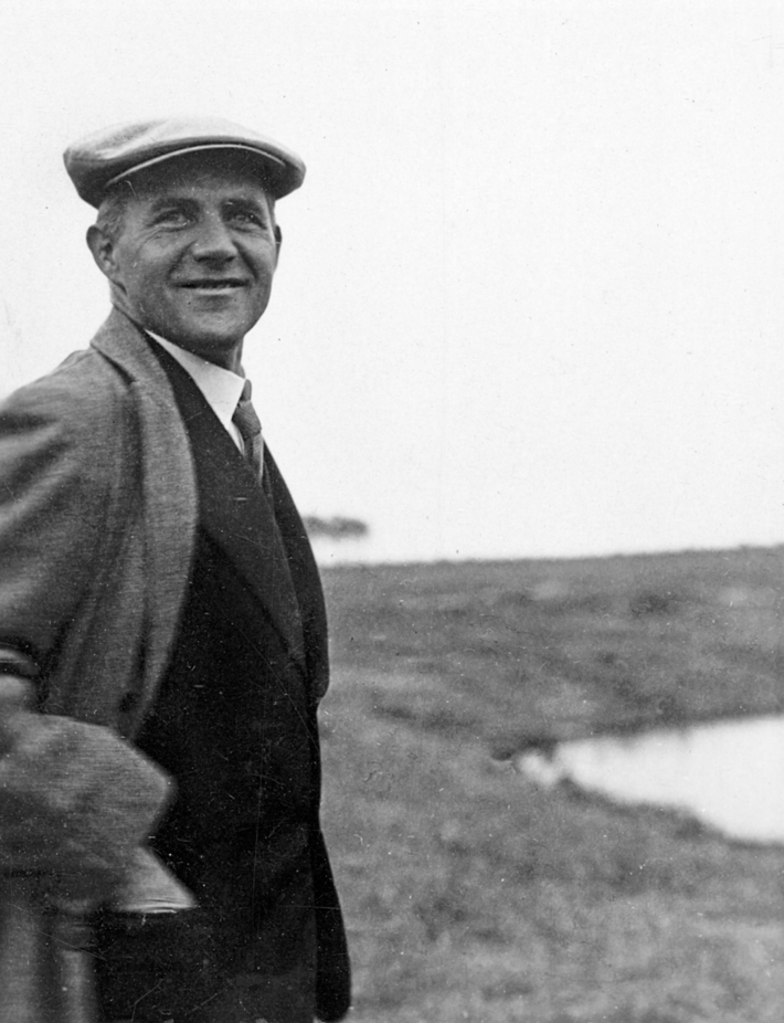 Hannes Meyer bei der Begehung des Baugeländes für die Bundesschule des ADGB in Bernau, 1928 / Foto: Hermann Bunzel (Stiftung Bauhaus Dessau, I 46037/1-2)